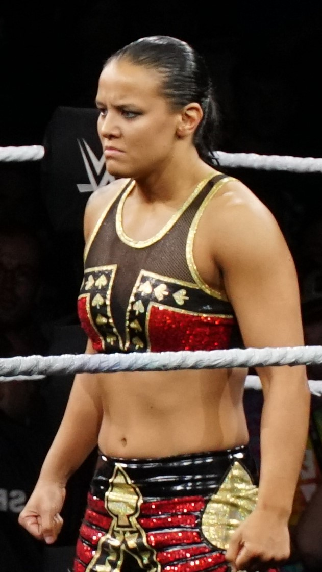 Shayna Baszler (left) vs NXT Women's Champion Ember Moon at NXT TakeOver: New Orleans in April 2018.